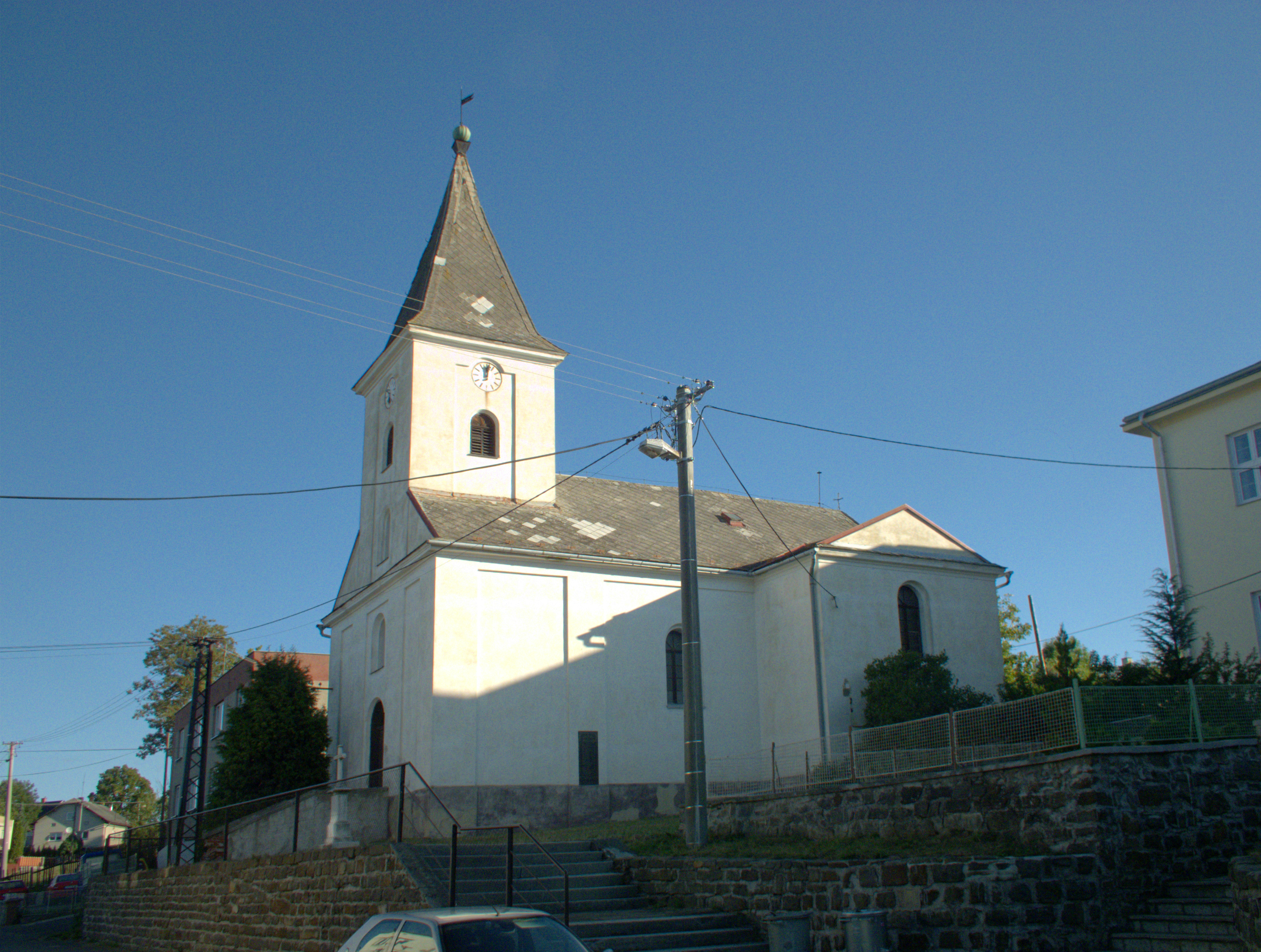 The Virgin Mary Church in Bravinné